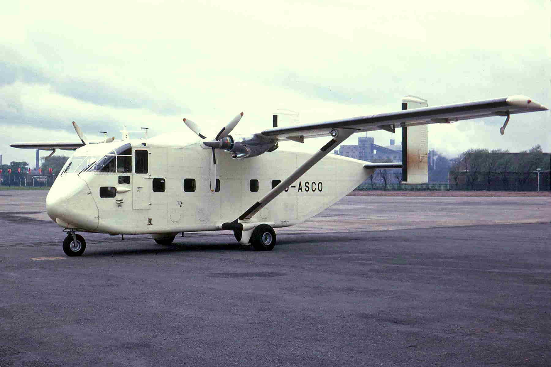 A picture of an airplane (name of it is on the file name).